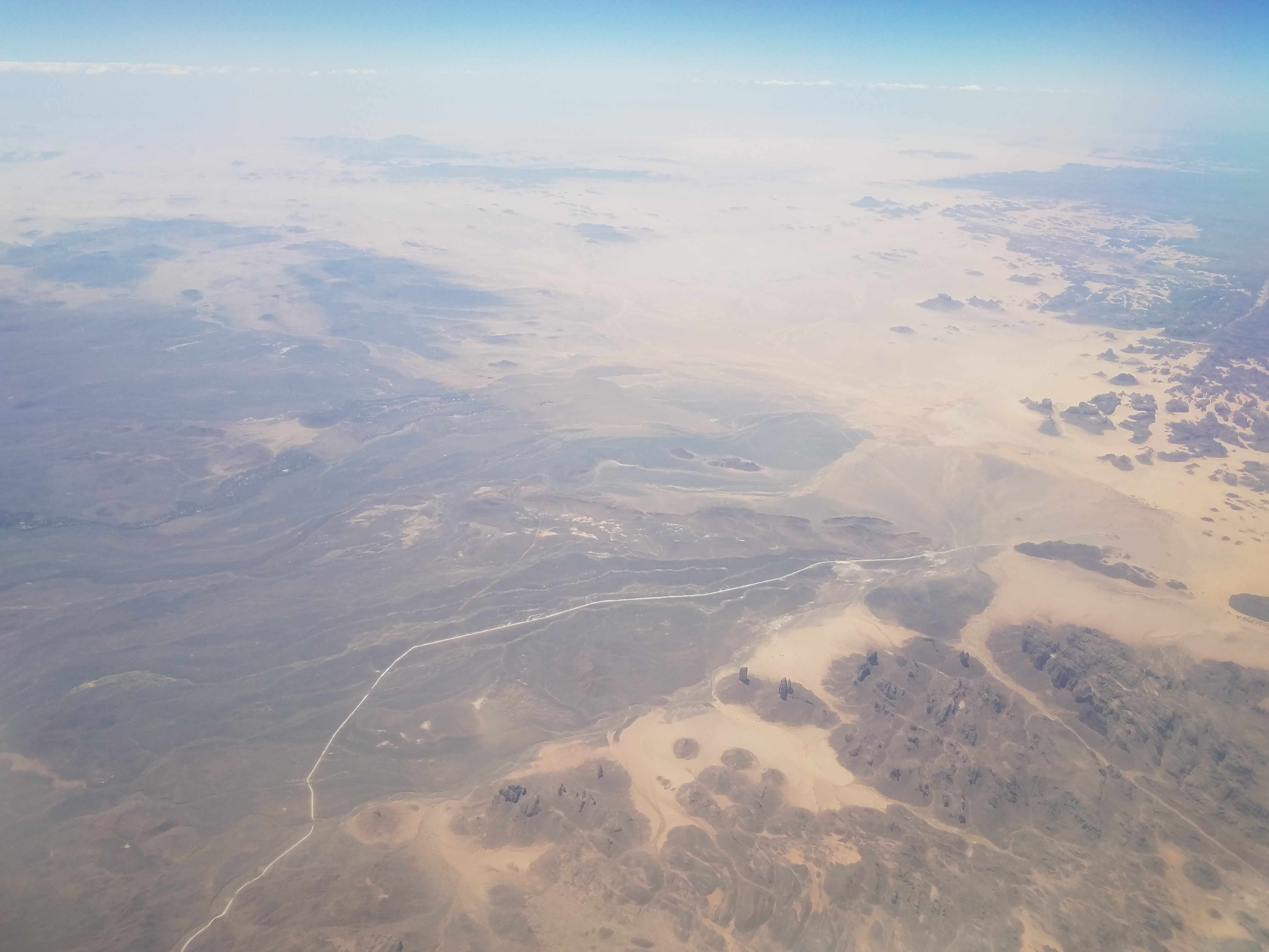 Dunes at Tassili n'Ajjer in the Alegerian Sahara